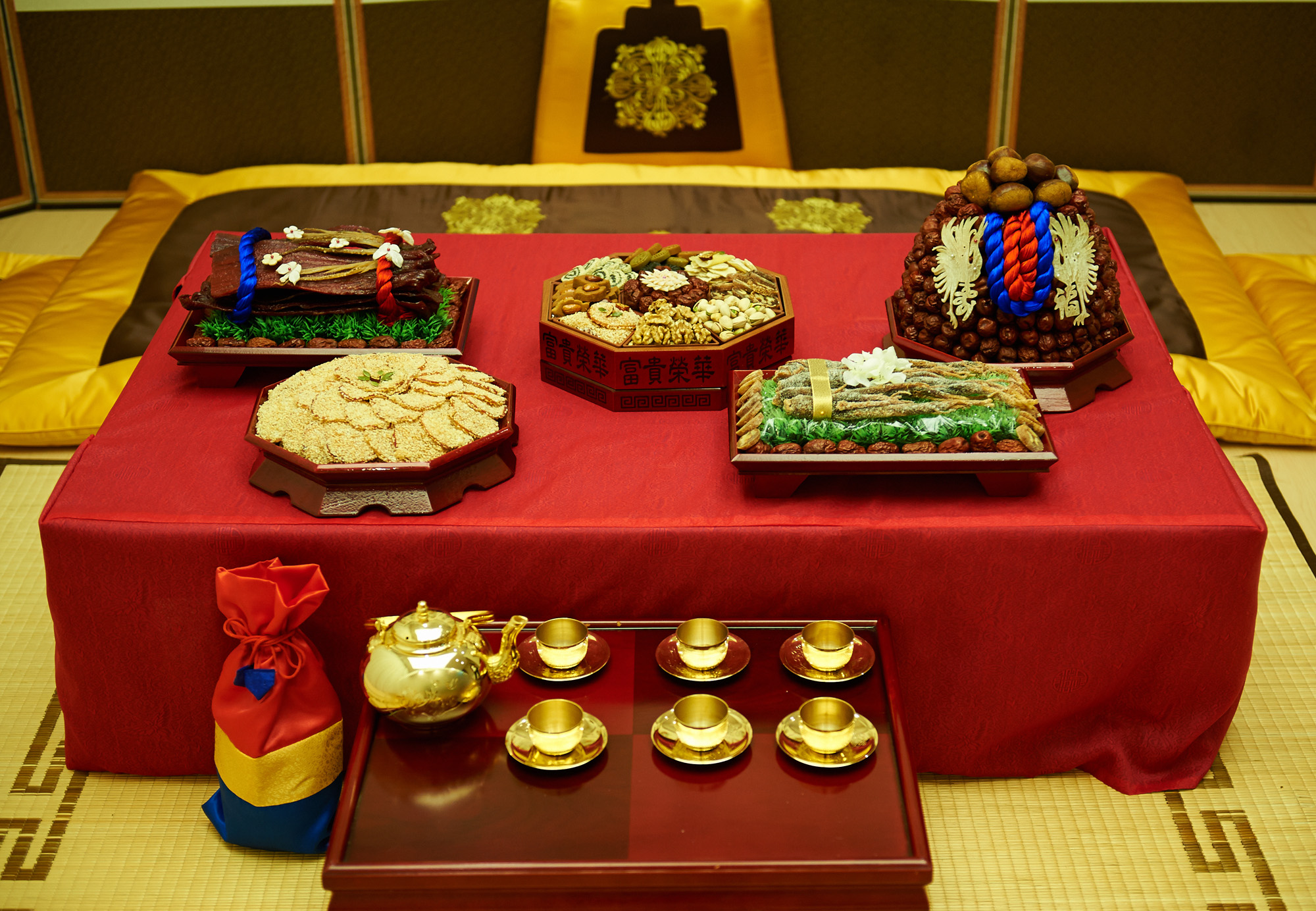 A table for pyebaek (formal greeting)